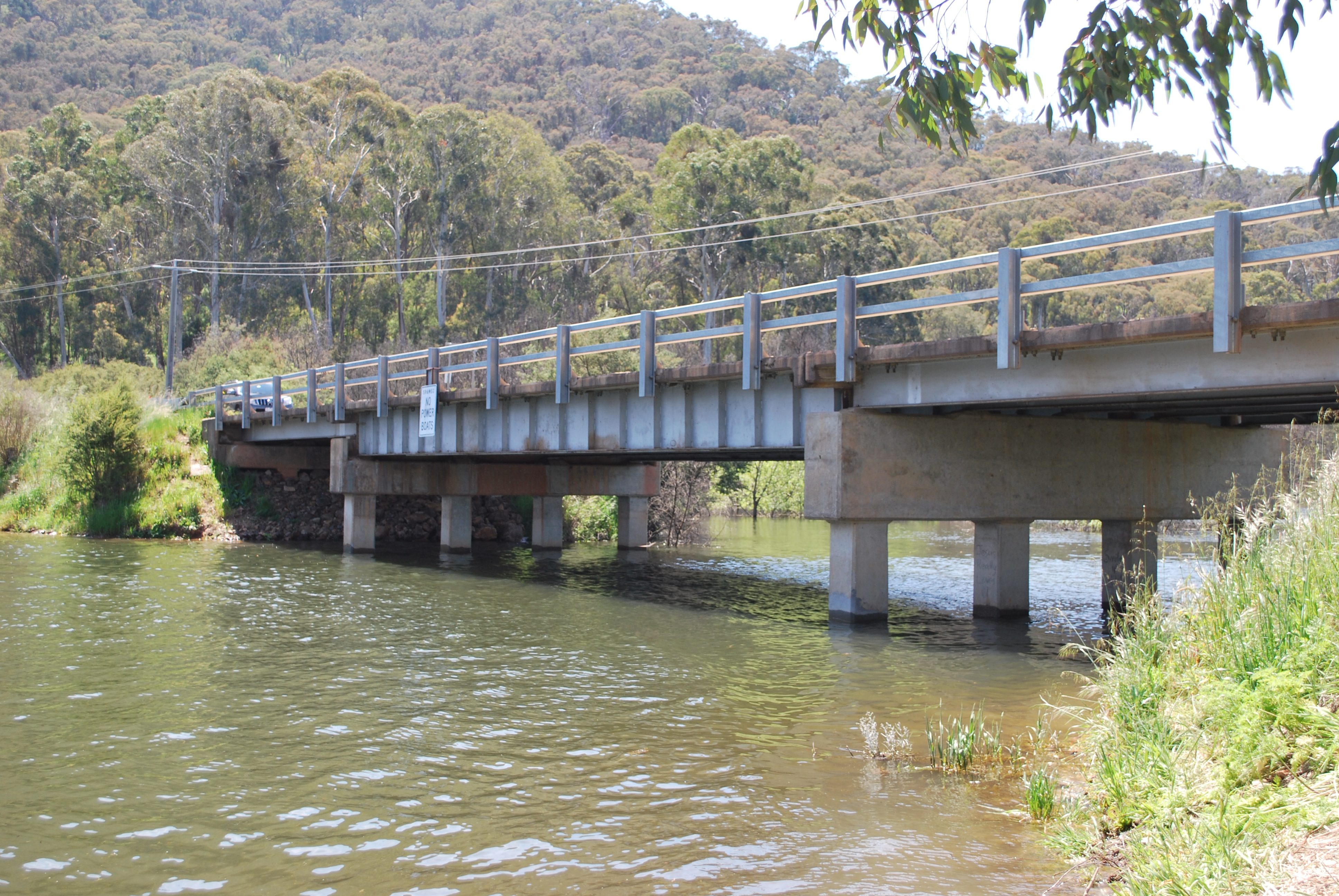 Bridge over the Howqua River where it enters Lake Eildon at Howqua, Victoria